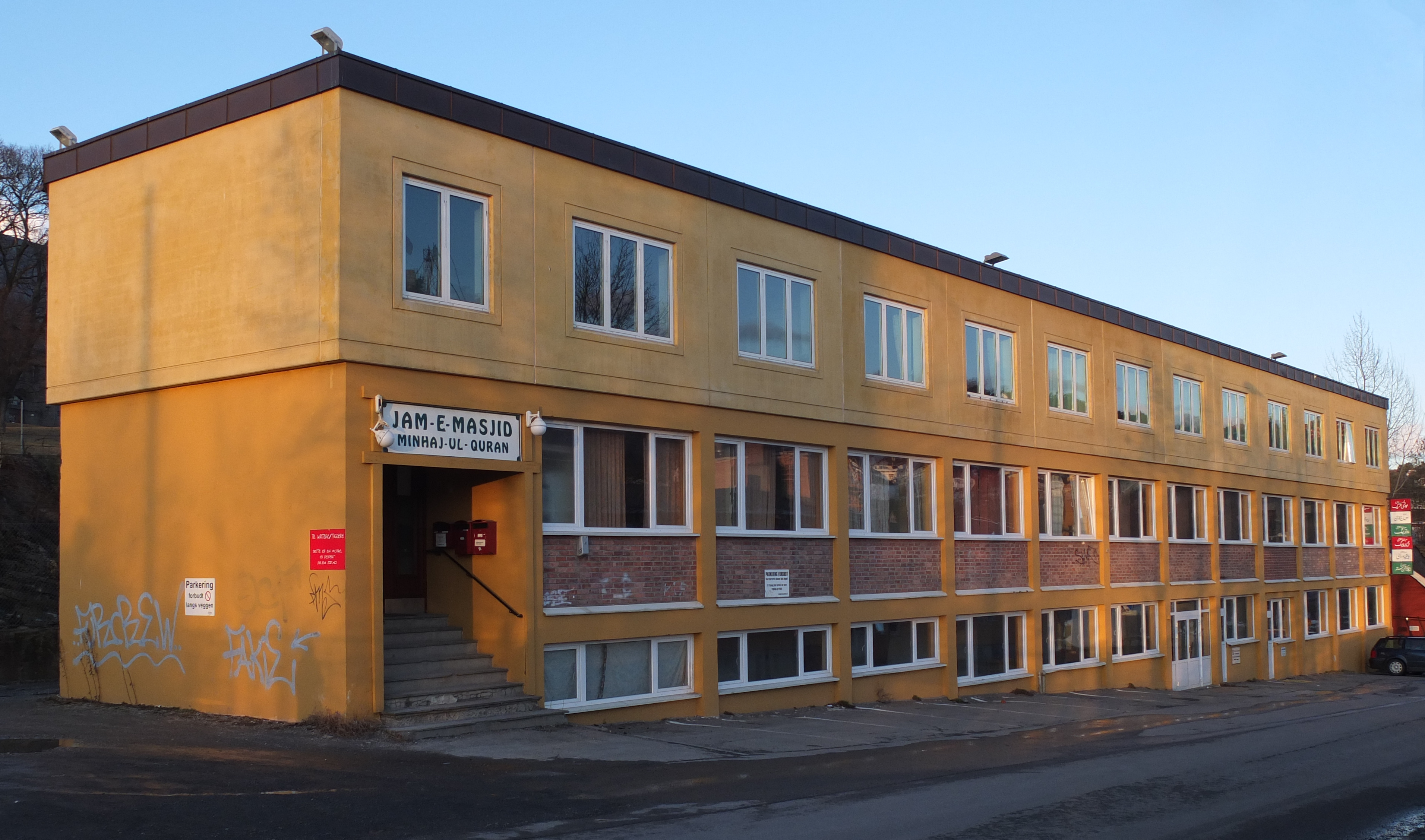 Minhaj-ul-Quran's mosque in Oslo, Norway